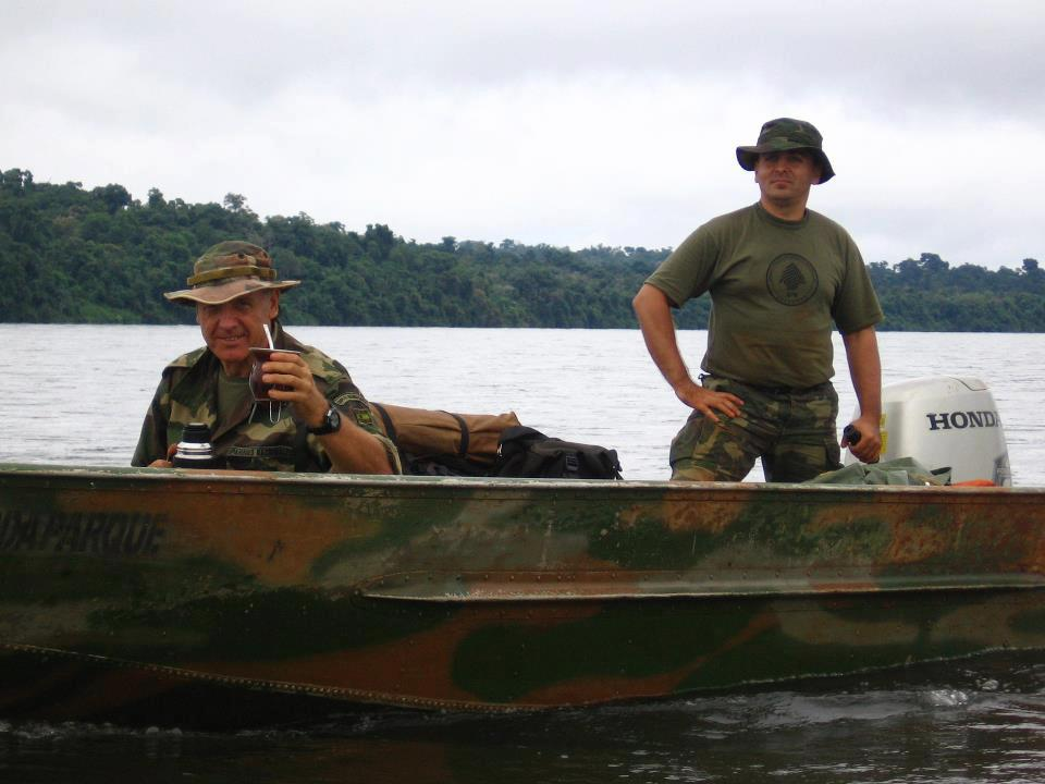 Jorge Cieslik was an explorer, photographer, writer and ranger in the National Park Iguazú (Parque Nacional Iguazú) in Misiones Province, Argentina